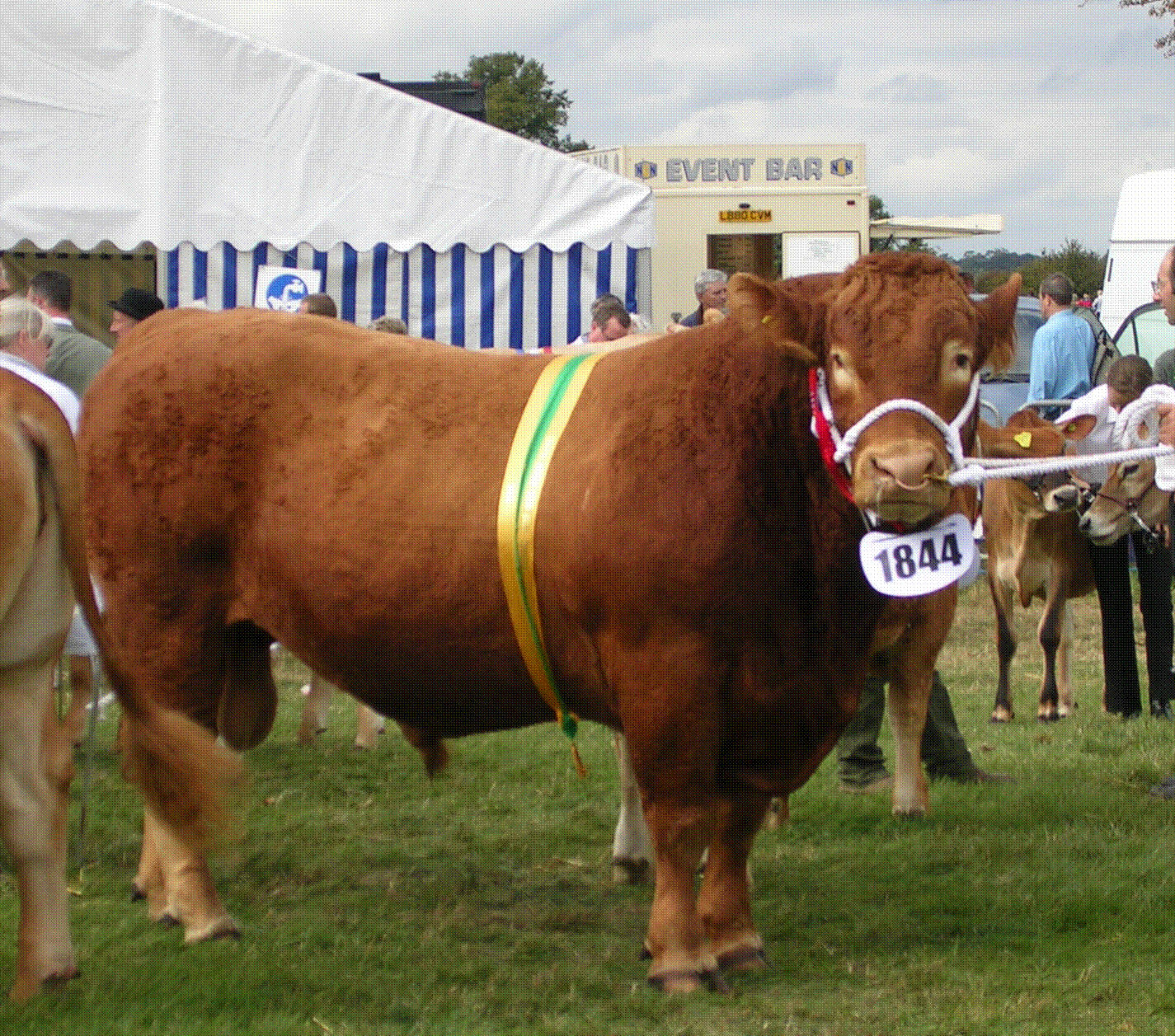 Champion Limosuin Bull photographed by uploader 31.VIII.06 at the Buckinghamshire Agricultural Show, England.